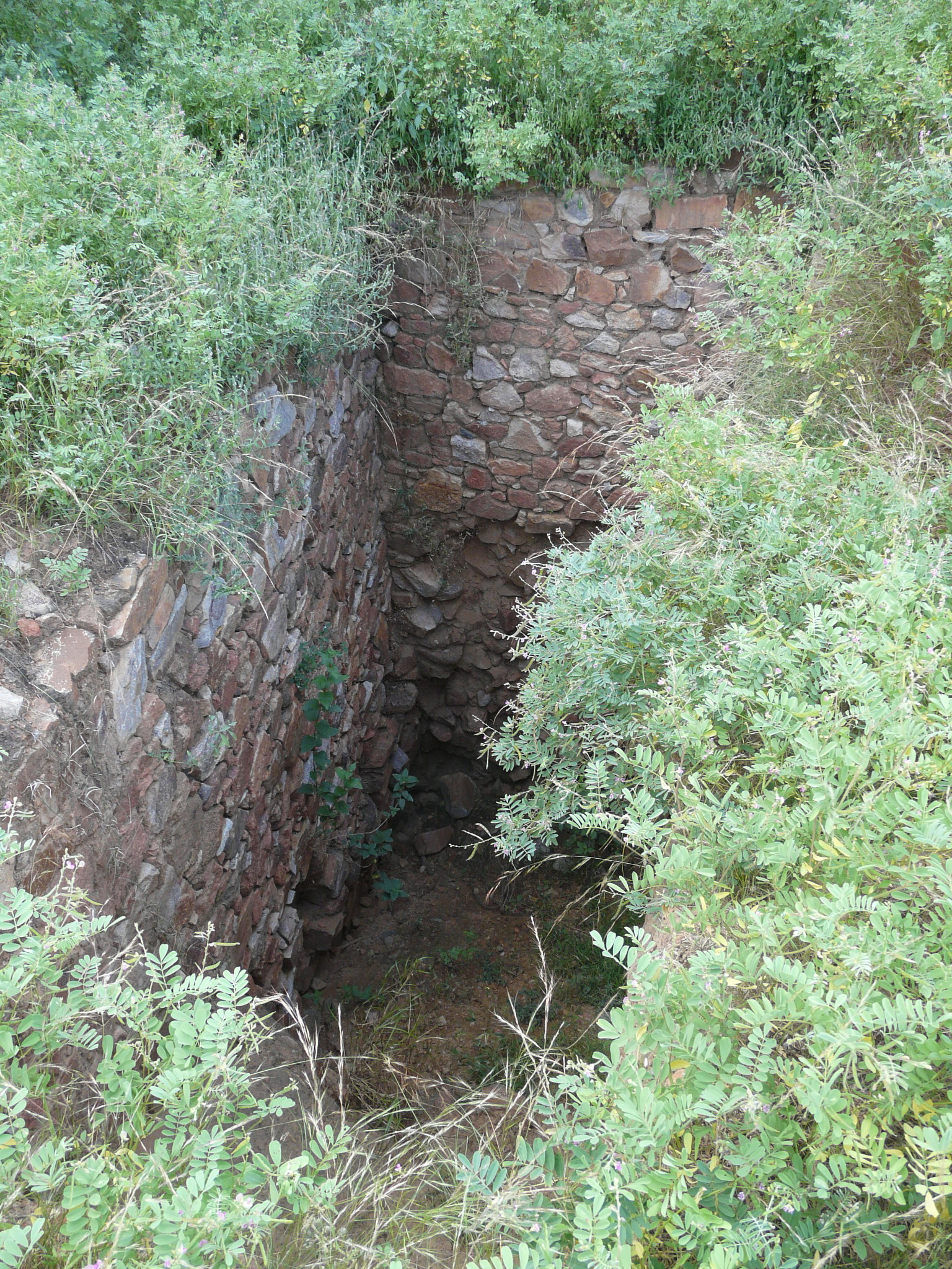 At least we can see walls here!